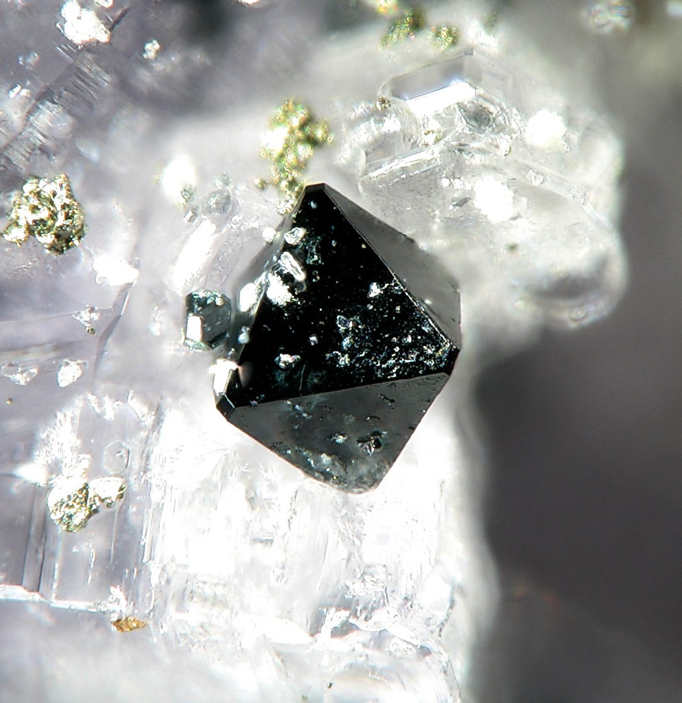 Voltaite Locality: Rio Tinto Mines, Minas de Riotinto, Huelva, Andalusia, Spain (Locality at ) Picture width 0,8 mm. Collection and photograph Christian Rewitzer